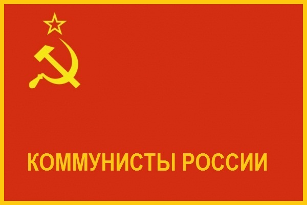 Party flag of the Communists of Russia